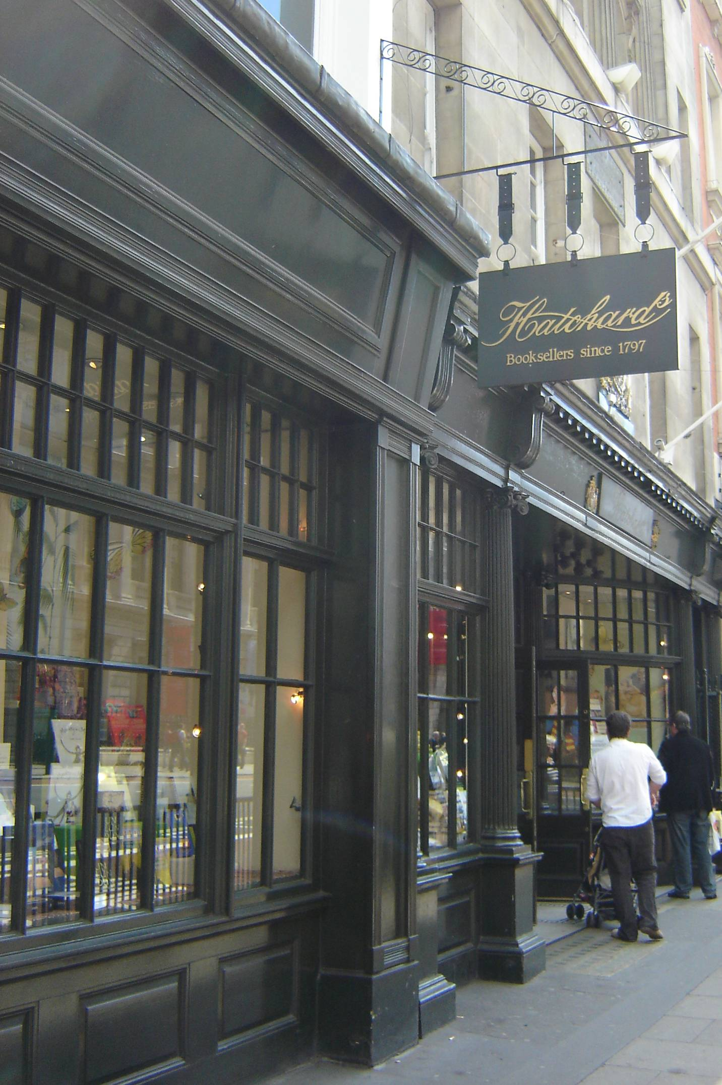 Hatchards Bookshop, Piccadilly London, Booksellers by Royal appointment.